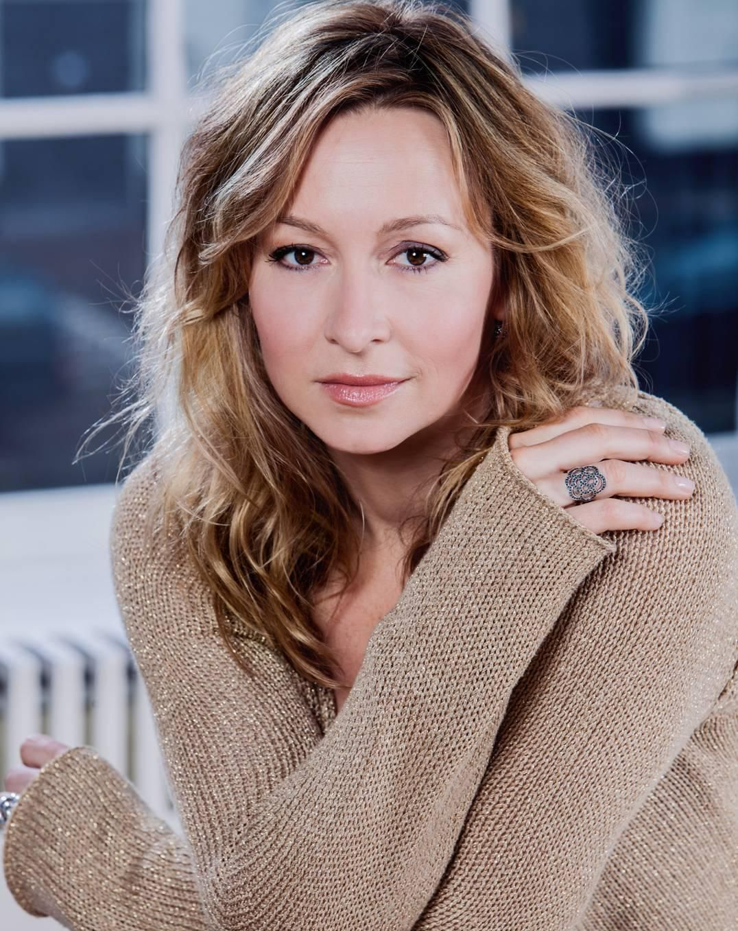 Cynthia Abma